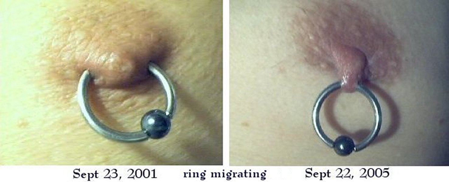 Visual example of a nipple ring having migrated over a four-year period. Note small mole or skin color spot bit to left of ring same in each photo; same nipple.